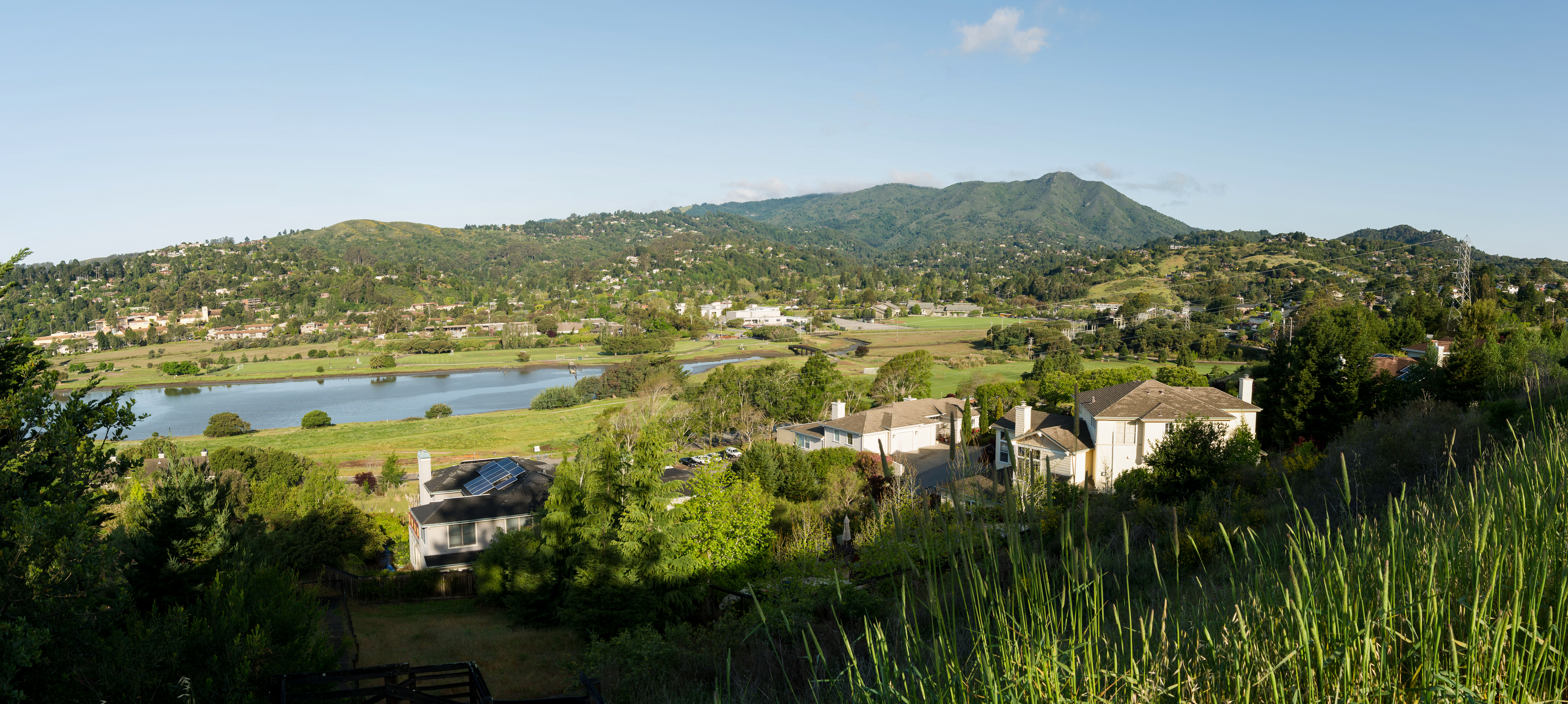 Panoramic view on Mill Valley, California, from Seaver Drive. Based on 15 photos taken in early May 2012.